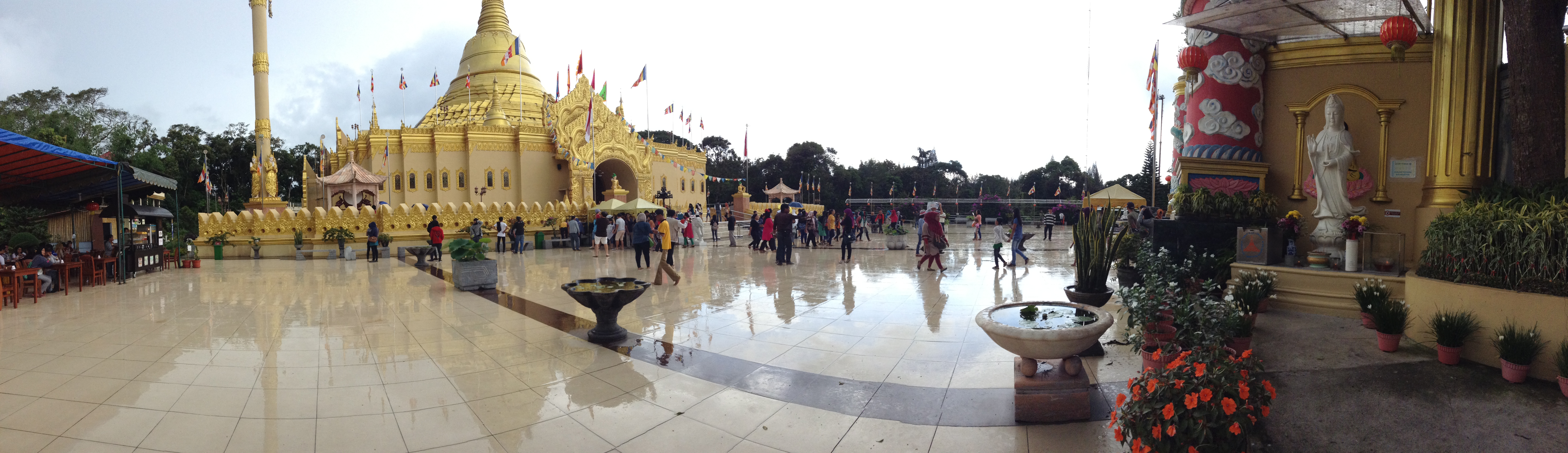 Panoramic view of Pagoda in Lumbini Park, Berastagi, North Sumatera. 2013